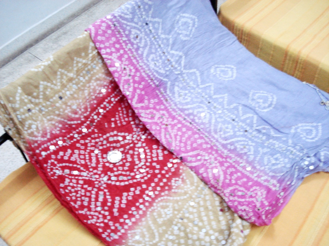 Bandhani/ Bandhej art form on cloth typical of Rajasthan/ Gujarat in India.